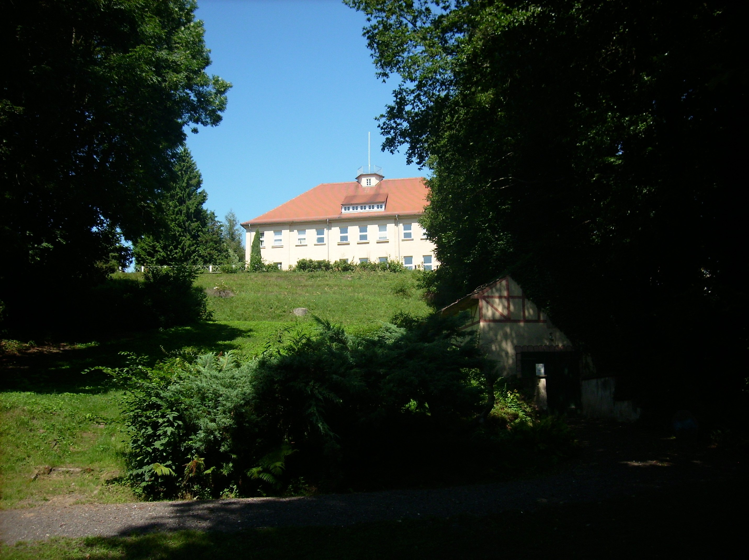 Rösa Castle (Muldestausee, Anhalt-Bitterfeld district, Saxony-Anhalt) from the park